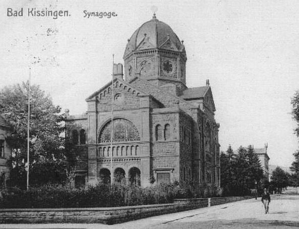 Synagogue of Bad Kissingen built in 1902; destroyed in 1938